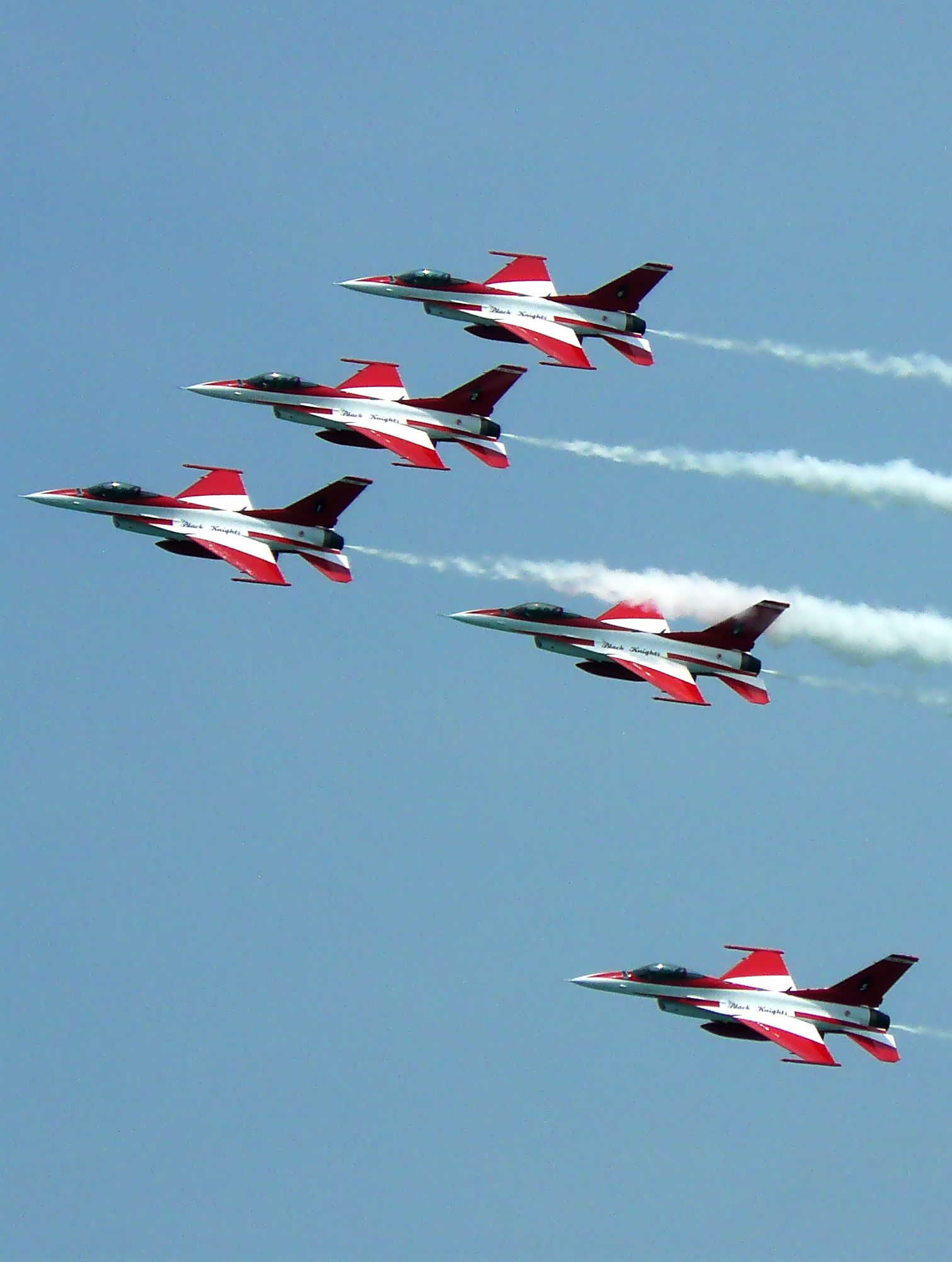 The RSAF Black Knights, the official aerobatics team of the Republic of Singapore Air Force (RSAF), performing in their F-16C Fighting Falcons at the Singapore Airshow 2008.